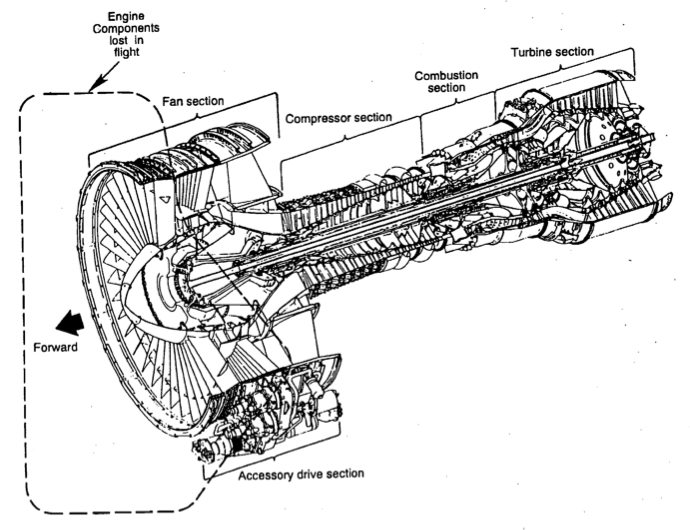 A diagram showing of the General Electric CF6-6D turbofan engine. Annotations from the NTSB show the engine components lost in United Airlines Flight 232 (known as the Sioux City Crash)